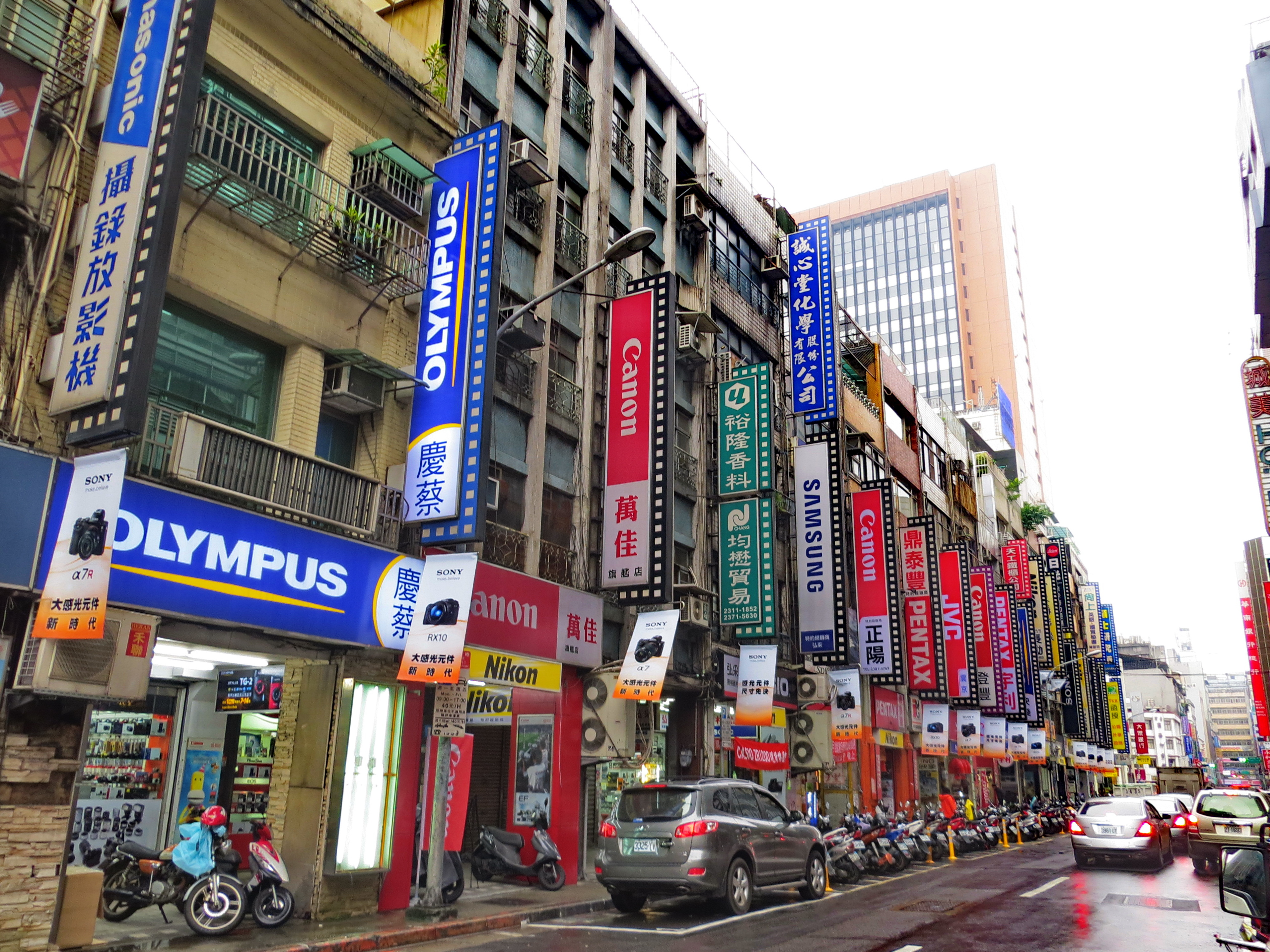 Sec. 1, Hankou Street, Zhongzheng District, Taipei City, Taiwan.